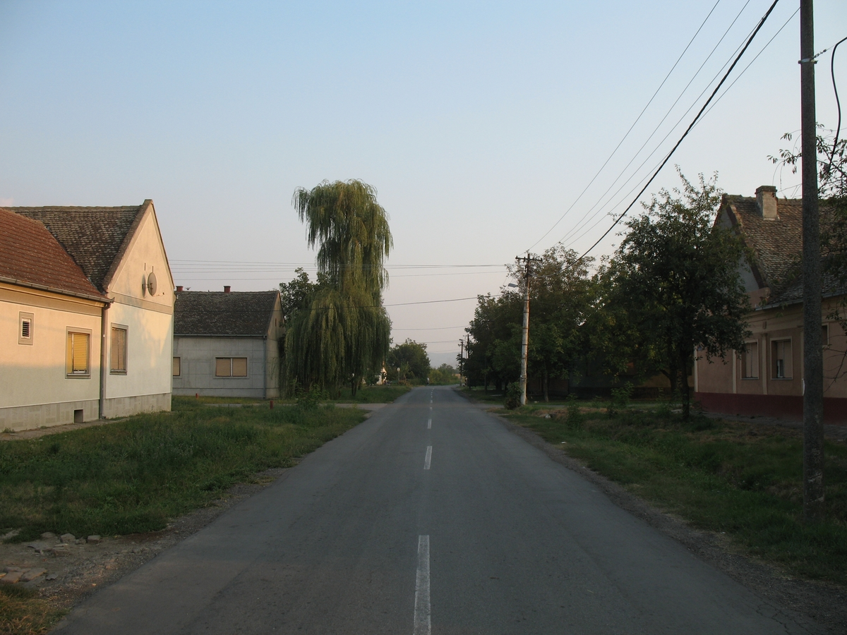 Ovča, near Belgrade, Serbia.